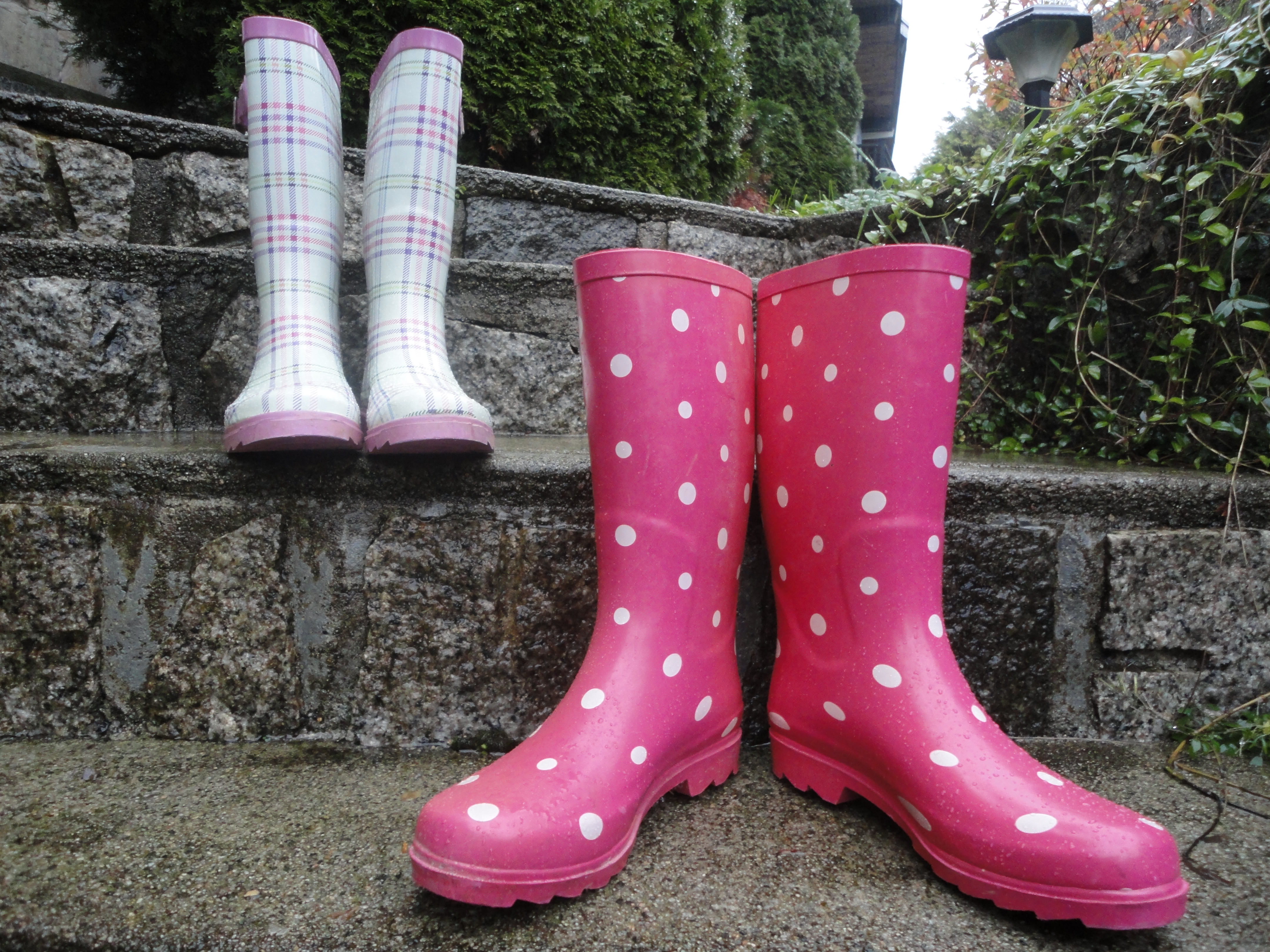 Two pink pairs of rain boots on stairs in Vancouver